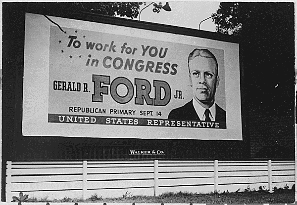 A billboard for Gerald R. Ford Jr., located in Michigan. Ford seek support for the September 14, 1948 Republican primary election: "To work for you in Congress" as a U.S. Representative